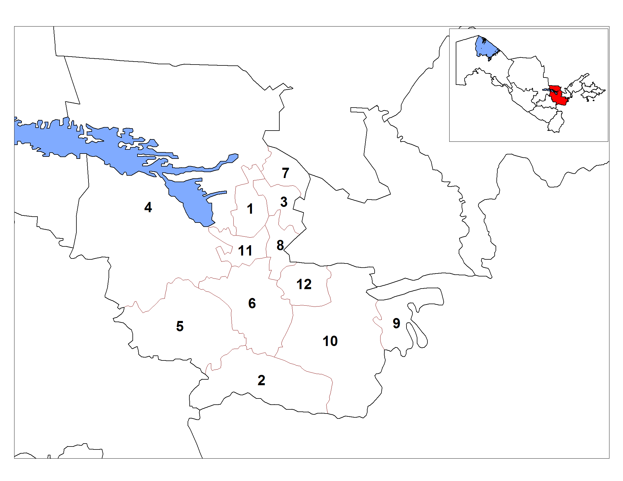 Map of the districts (tuman) of the province (viloyat) of Jizzakh in Uzbekistan.